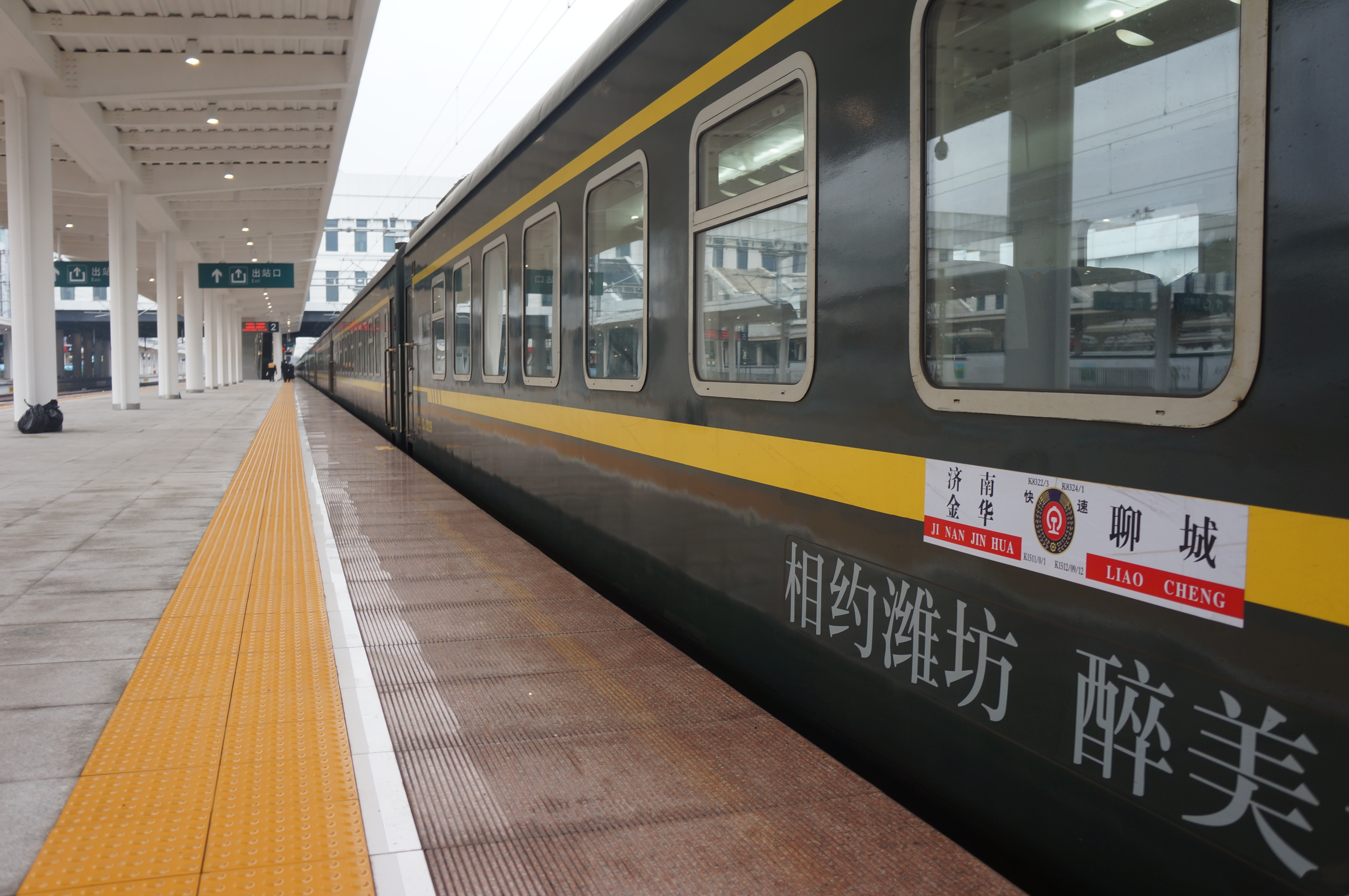 201901 Coaches of K1511 at Jinhua Station